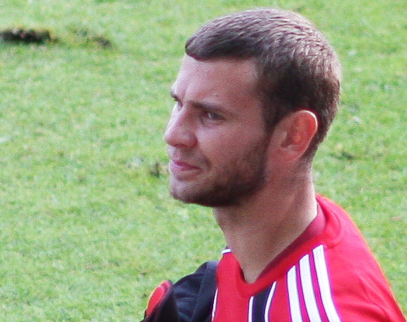 Edgars Gauračs, Latvian football player